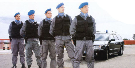 calendario